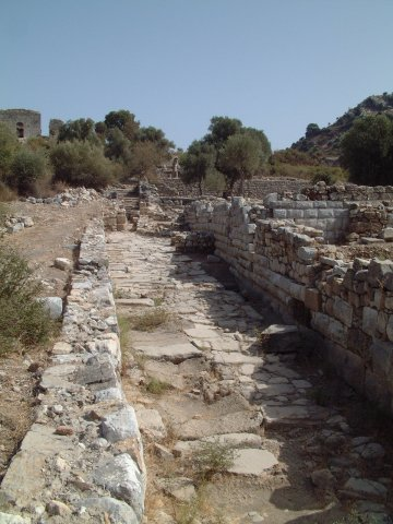 A street in Kaunos, Turkey. PAL.